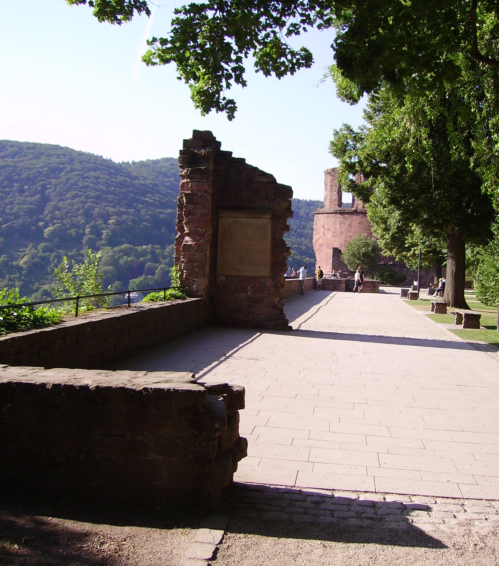 part of Heidelberg castle (Heidelberger Schloss)